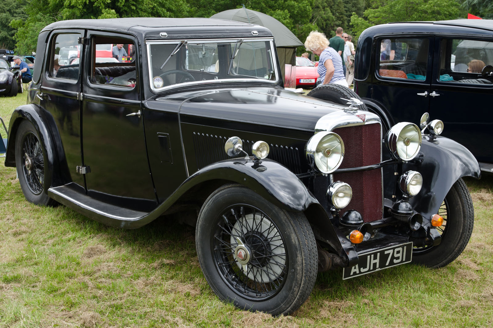 Alvis Firebird 1933Trentham Gardens Classic Car Show 16/06/2013(DVLA) First registered 1 May 1935, 1842cc